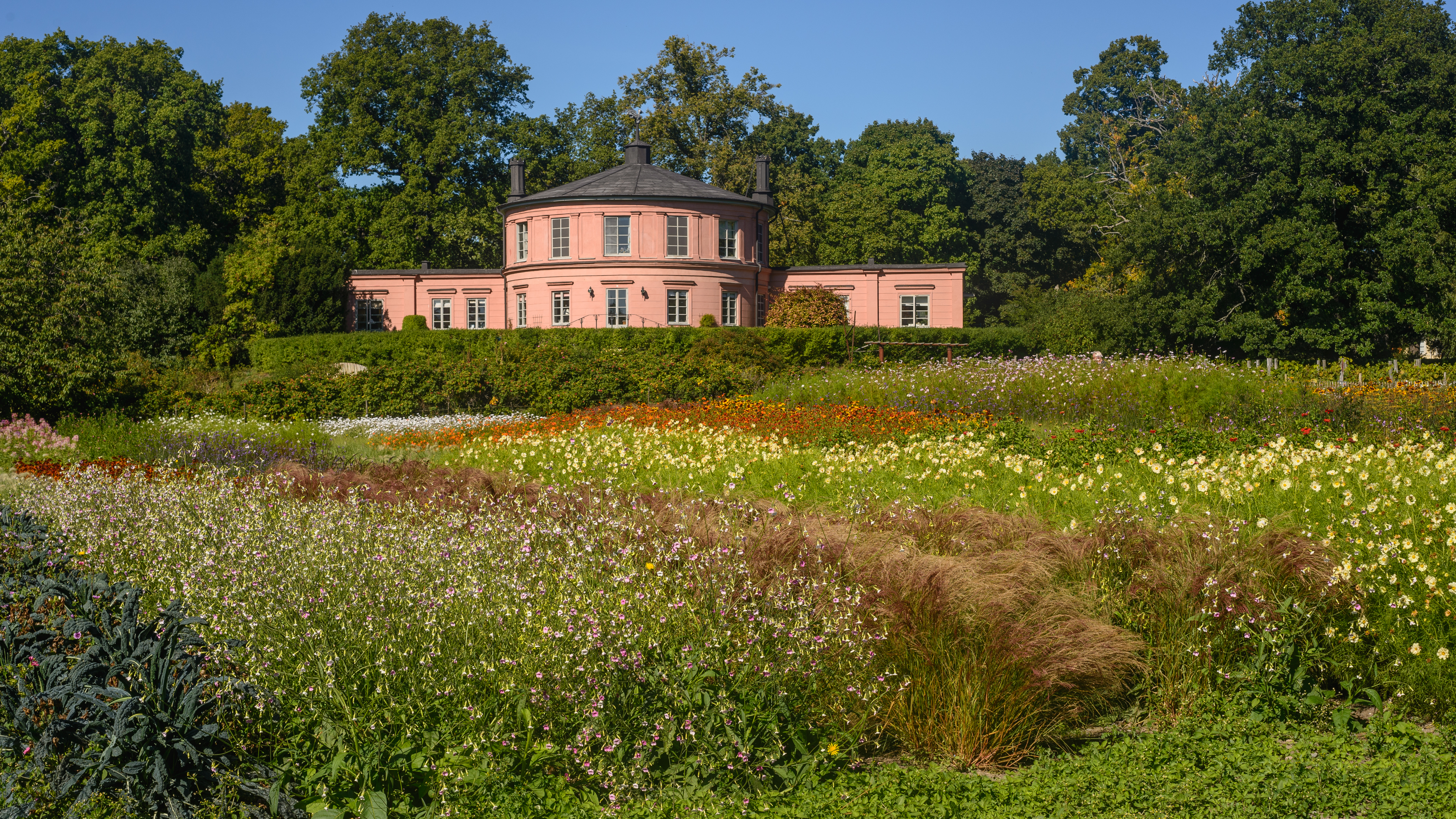 Rosendal orangery built 1859-50. Architect Georg Theodor von Chiewitz. Built as a part of Rosendal garden, next to Rosendal palace.